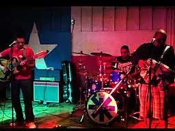 Tejano band